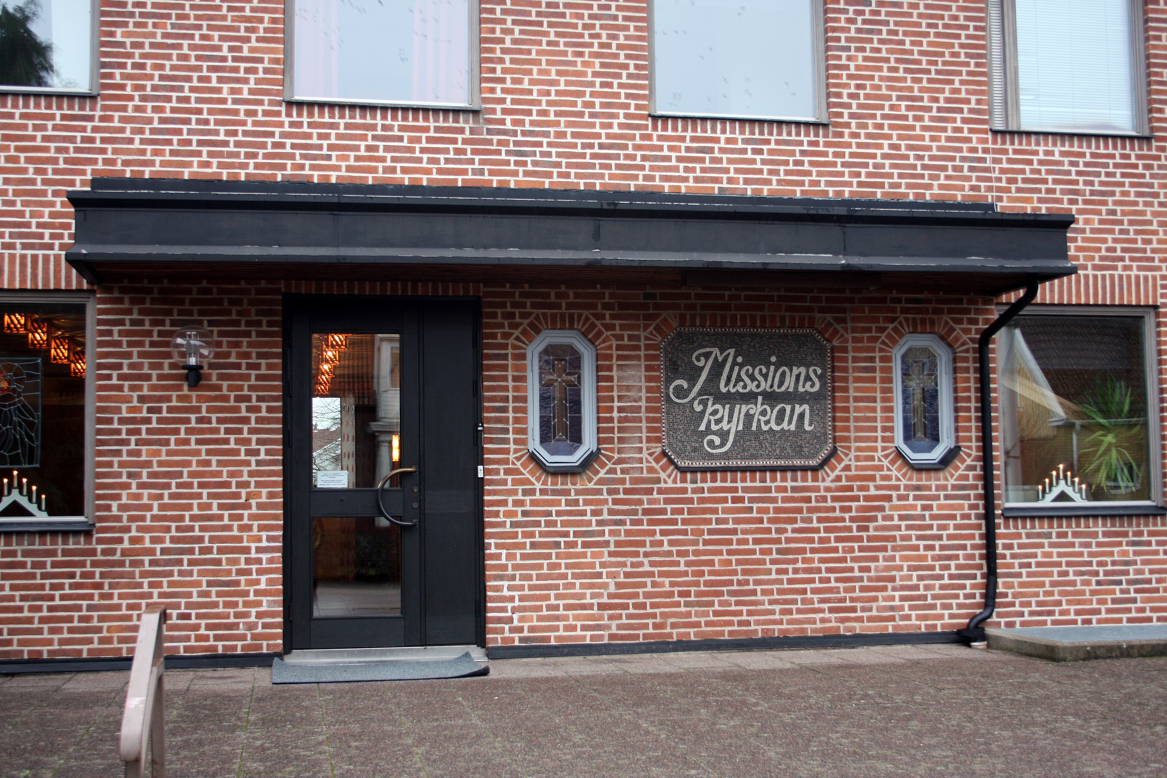 Entrance of Missionskyrkan (Mission Covenant Church) in Vårgårda, Sweden